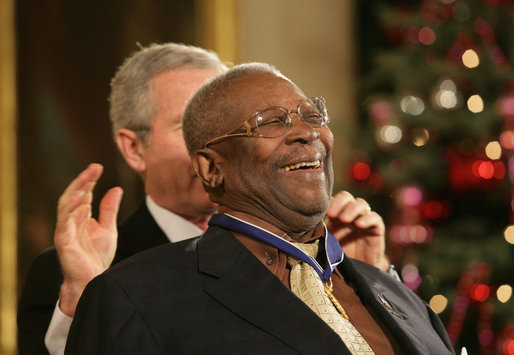 B.B. King breaks out in laughter as he's presented with the Presidential Medal of Freedom Friday, Dec. 15, 2006, by President George W. Bush in the East Room of the White House. Introducing the musician, President Bush told the audience, when speaking of the blues, "two names are paramount... B.B. King, and his guitar, Lucille. America loves the music of B.B. King, and America loves the man, himself."